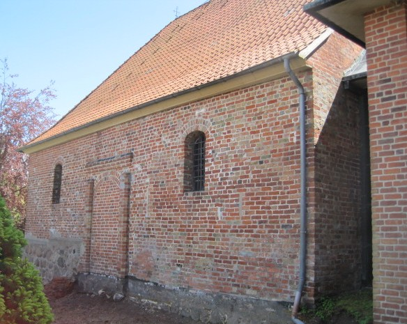 Hamberge church, north side.